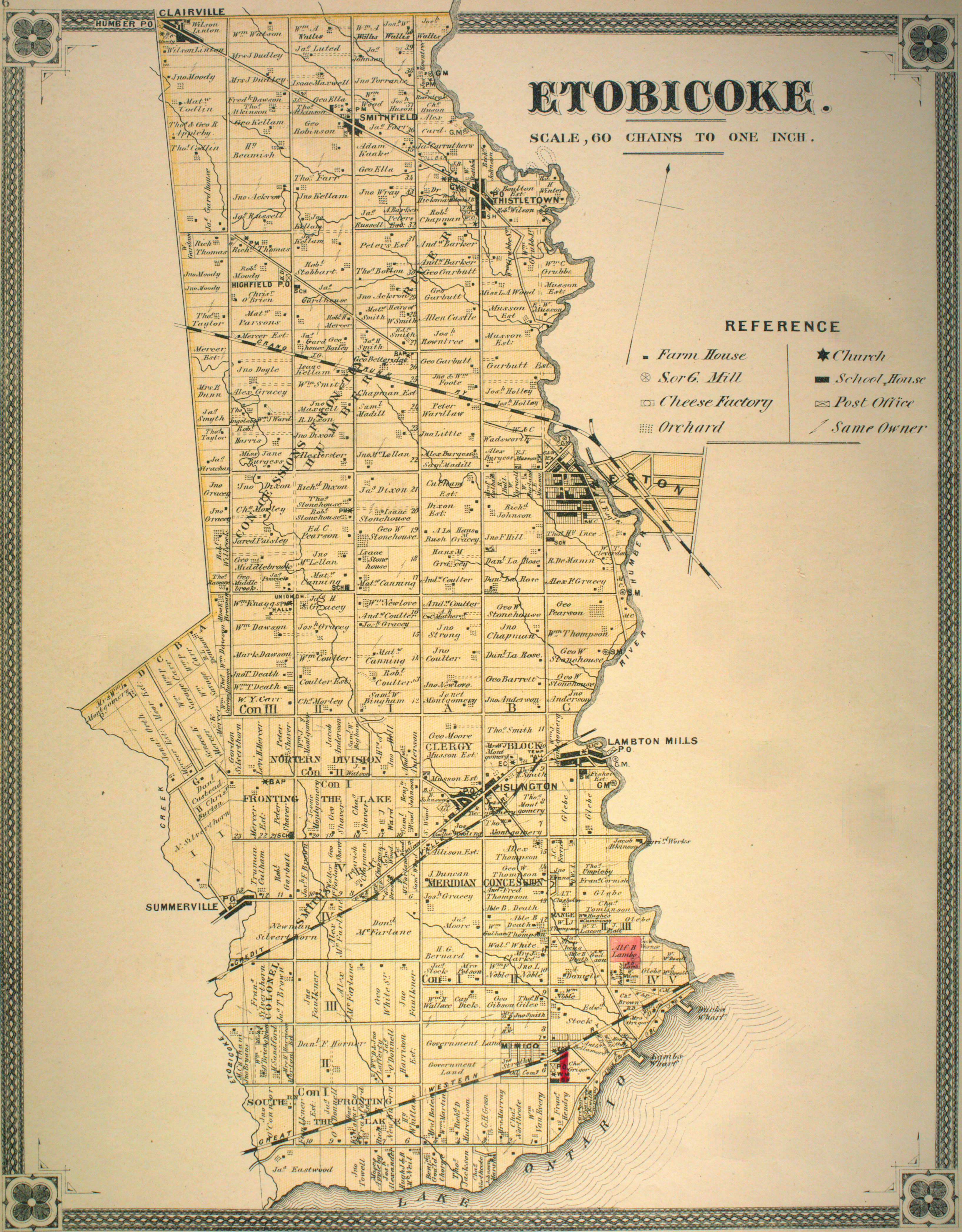 A Survey Map of Etobicoke, Ontario